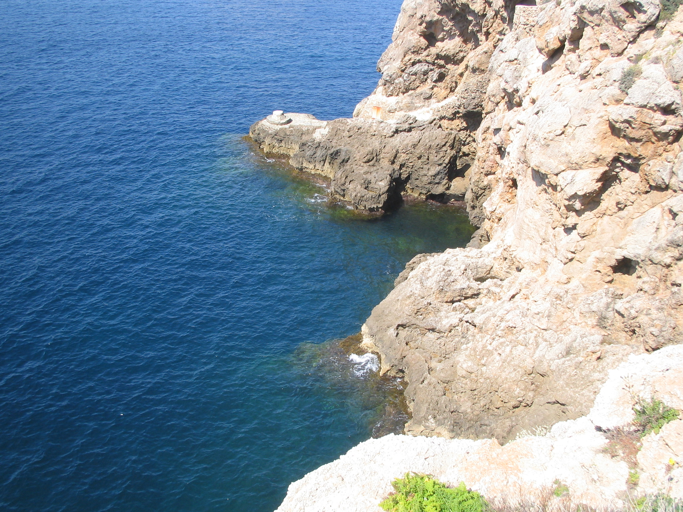 A small cliff in the majorcan coast.